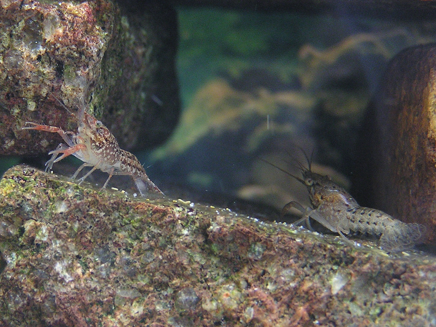 “Marmorkrebs” (juveniles), a small crayfish